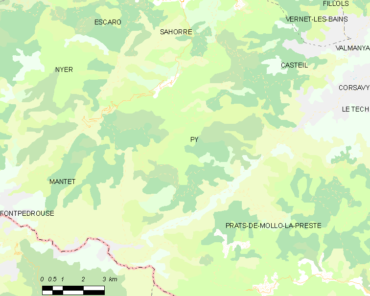 Map of French municipality